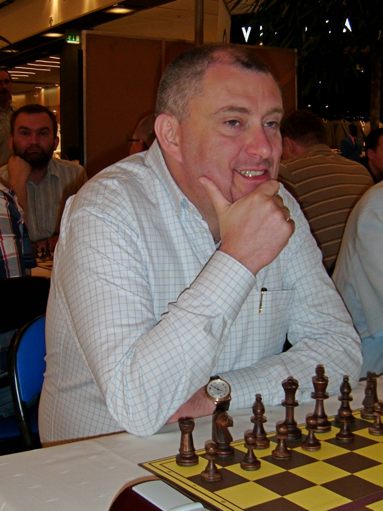 GM Jacek Gdański playing in the Individual Polish Blitz Chess Championship in Bydgoszcz